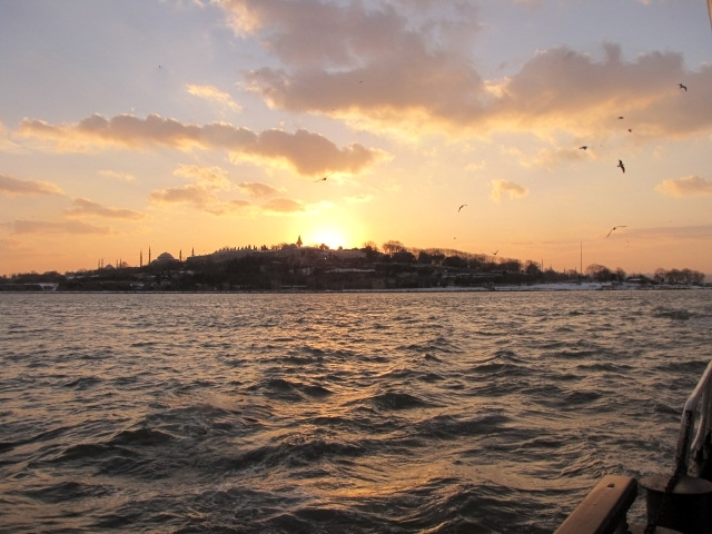 Sultanahmet (Istanbul) in the sunset